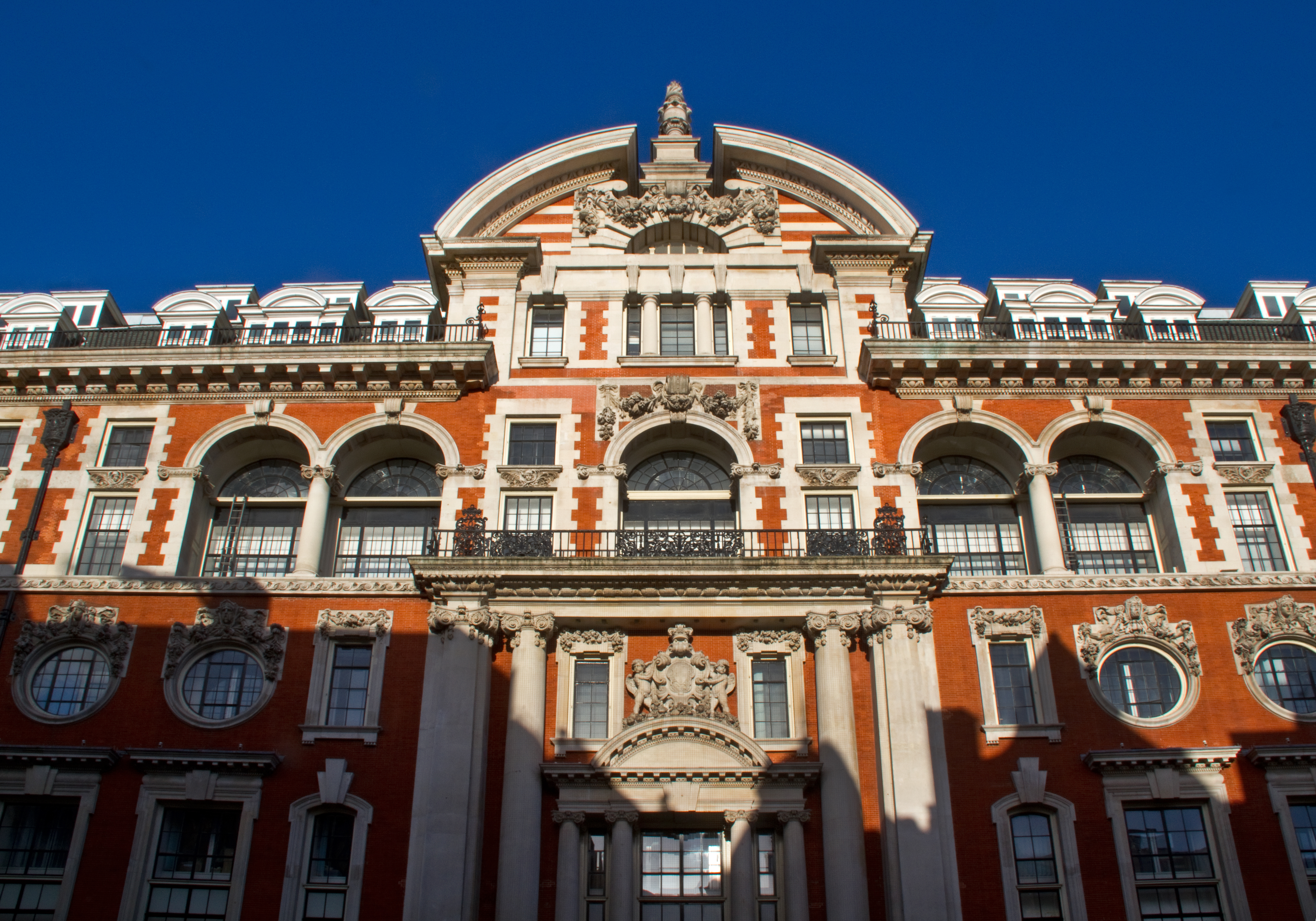 164-182 Oxford Street